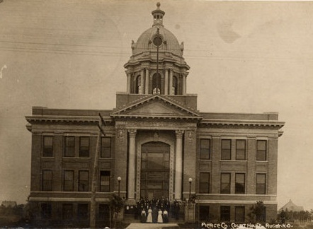 Gelatin silver print photographic postcard of Pierce County Courthouse, Rugby, S.D. Per notation at NDSU Institute for Regional Studies web site, the image is from a postcard postmarked October 14, 1913. Accordingly, the image is in the public domain having been first published before 1923.